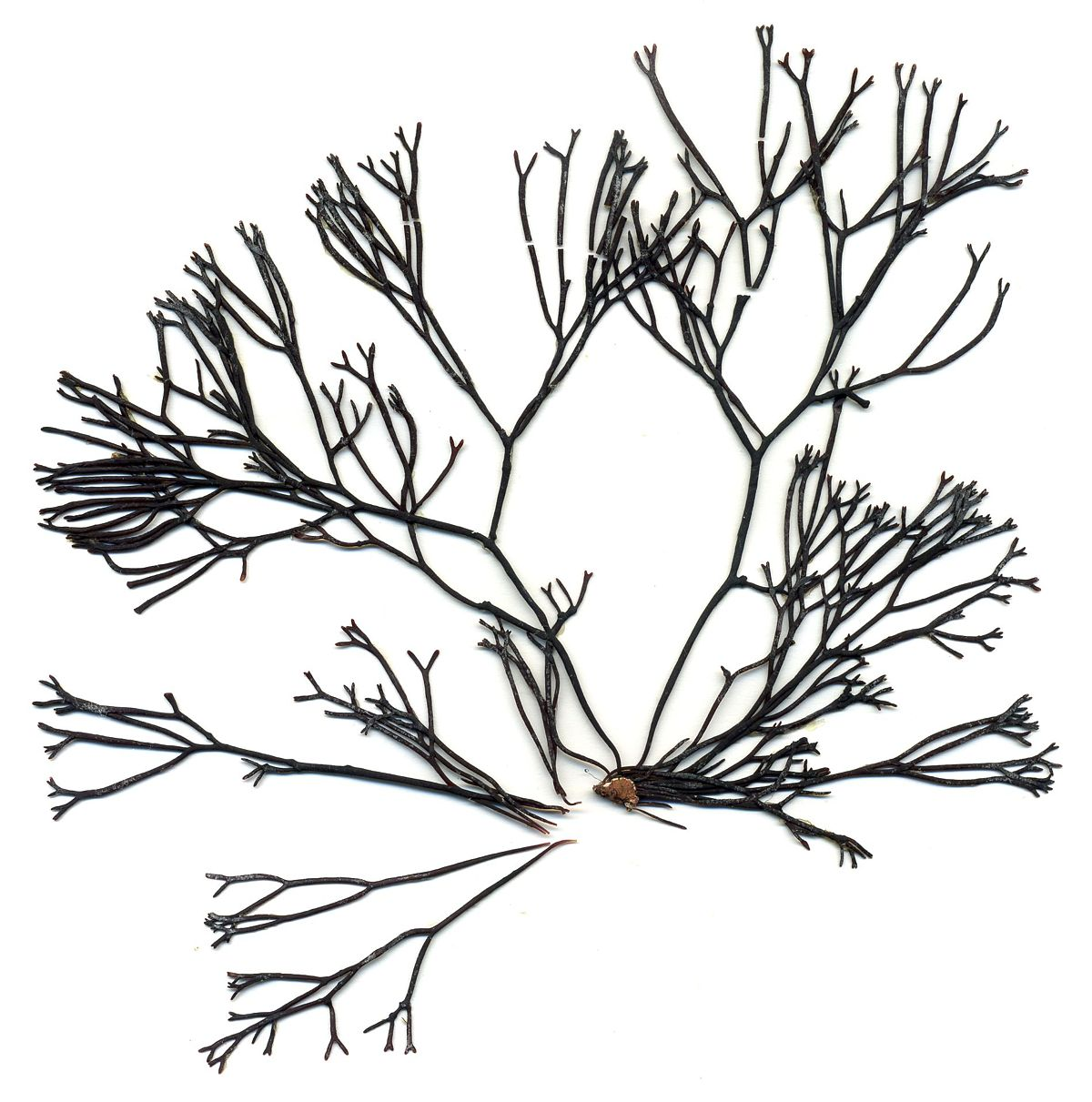 Polyides rotundus (Huds.) Grev., herbarium sheet. Collected 1989-08-08, Heligoland (Germany)